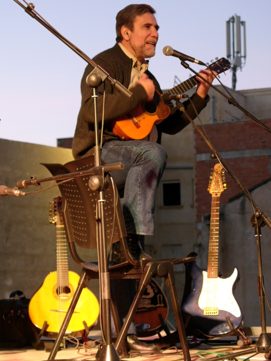 valencian folk musician Miquel Blanco performing live with Al Tall in Benissa